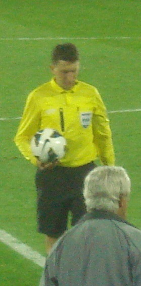 Valentin Kovalenko, Esteghlal-Al Ain, 2013 AFC Champions League